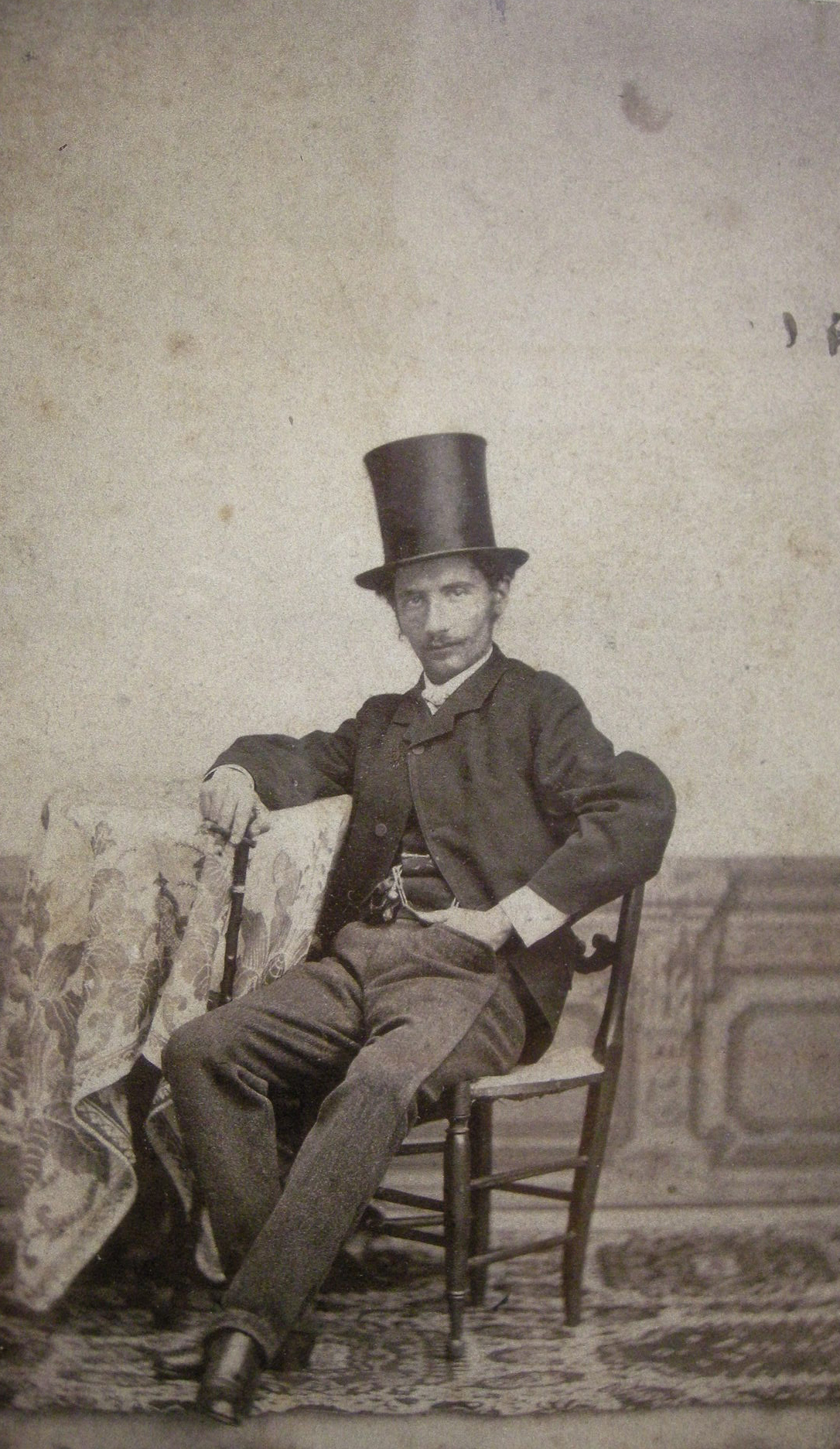 Picture of the beginning of XX century (1900-1903)